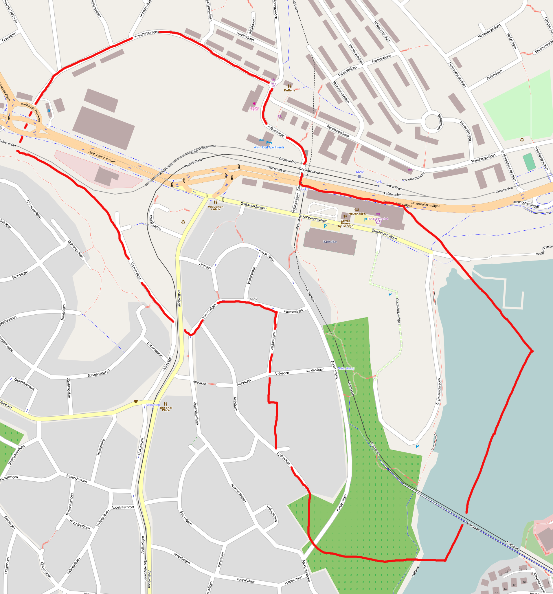 District of Alvik in Stockholm municipality. Boundaries to other districts marked with a red line